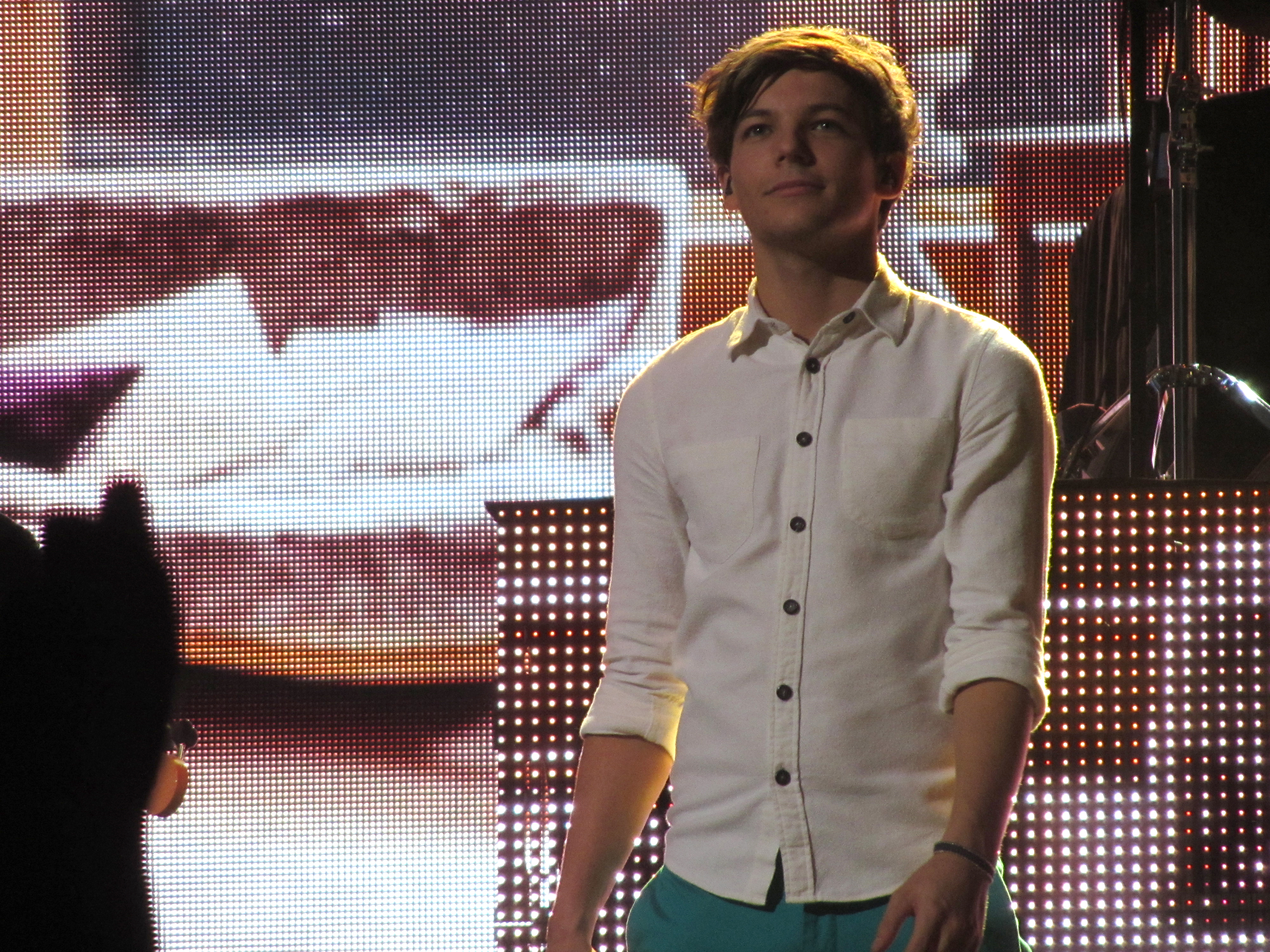 Louis Tomlinson, One Direction, Clyde Auditorium, Glasgow, Saturday 14 January 2012